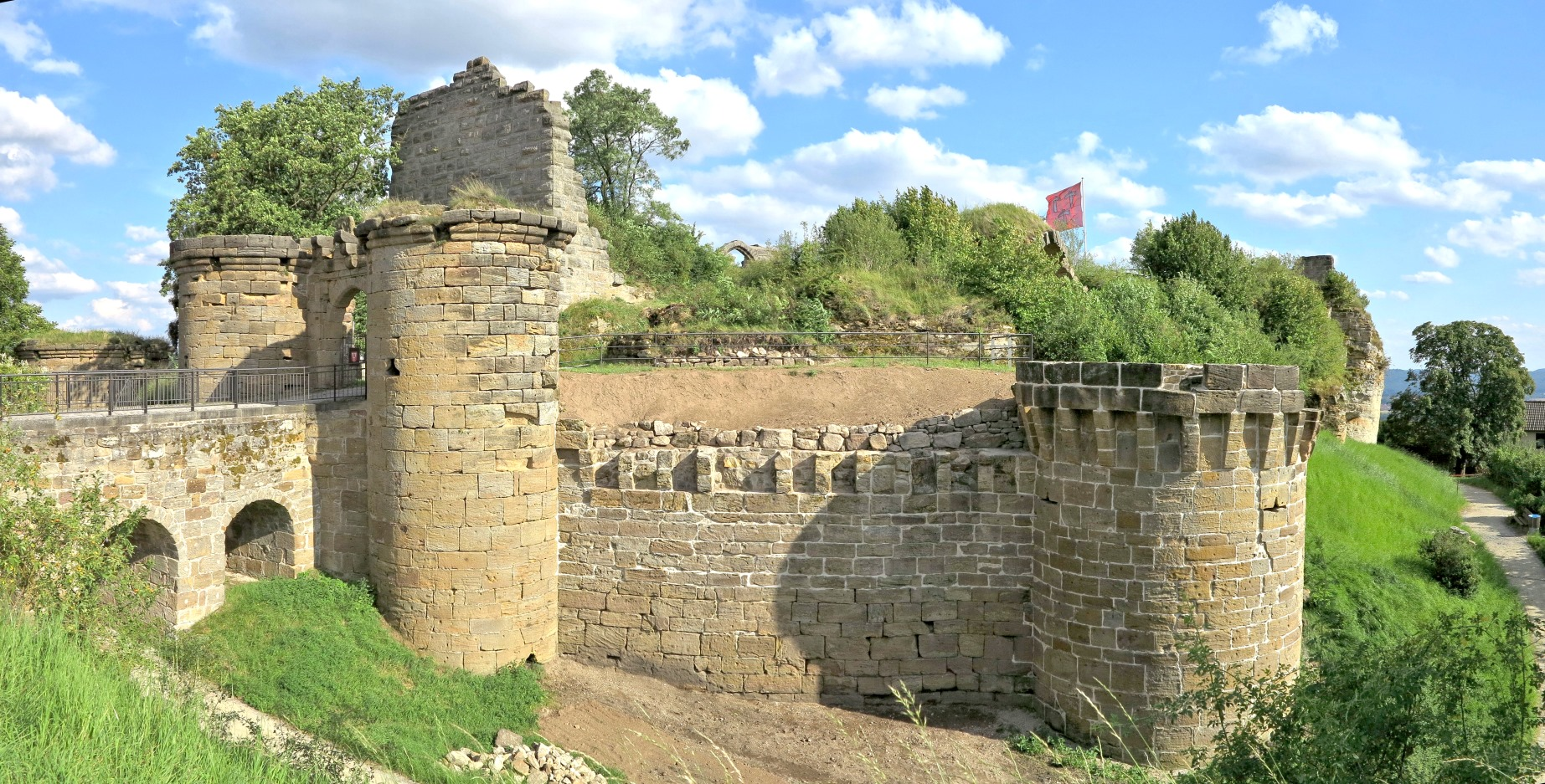 castle ruin of "Altenstein"